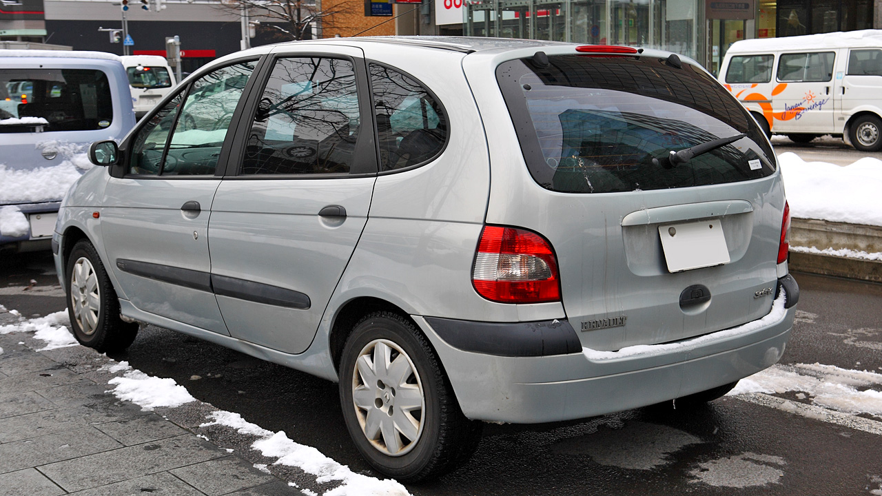 Renault Scénic I Phase 2